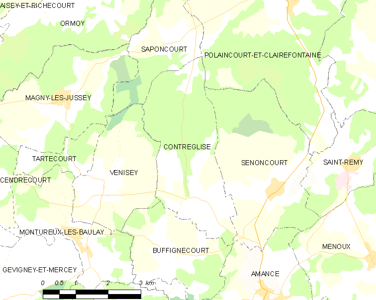 Map of French municipality